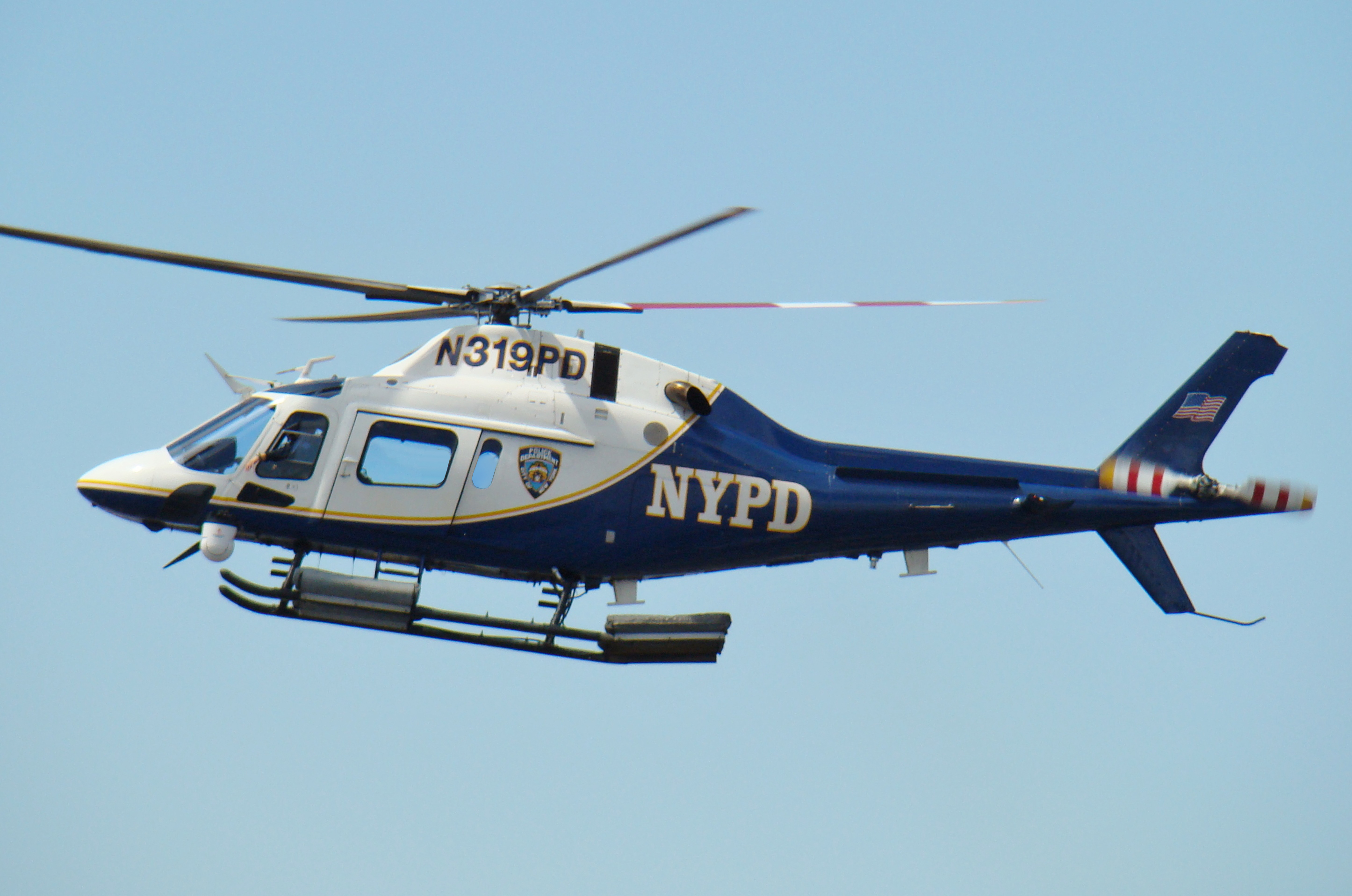 NYPD A119 helicopter